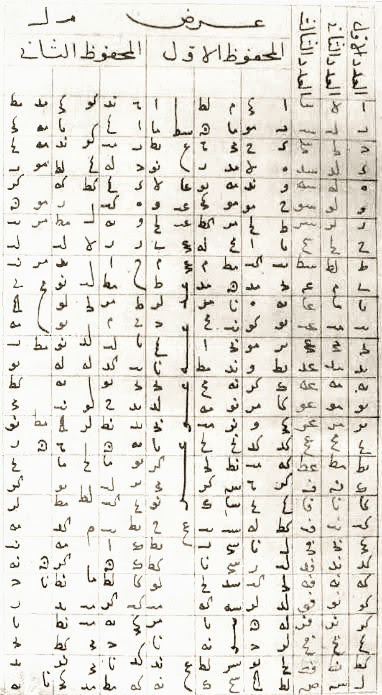 Extract from Topkapi Palace copy of Muhammad al-Qunawi's edition of al-Khalili's "universal auxiliary tables". This excerpt contains the solution of functions f(x, y) = sin y / cos x and g(x, y) = sin x tan y for each degree of x, and y = 40° and 40°30′